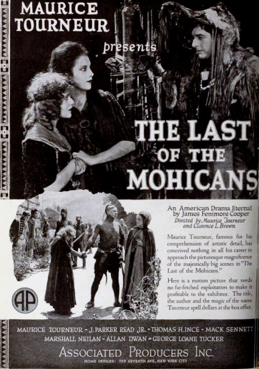 Advertisement for the American drama film The Last of the Mohicans (1920) with Harry Lorraine, Lillian Hall, Barbara Bedford, and Wallace Beery, on page 4 of the December 4, 1920 Exhibitors Herald.